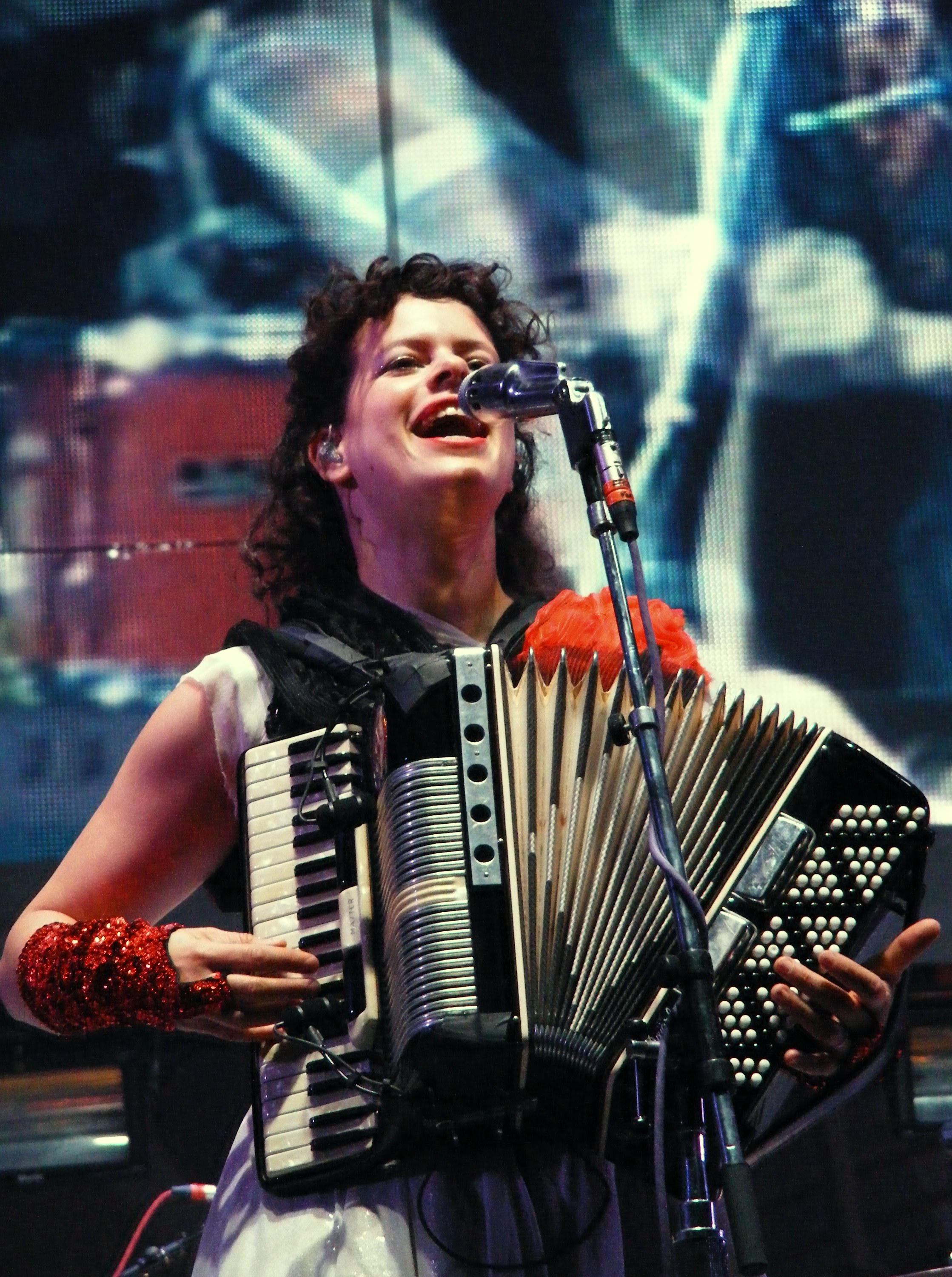 Régine Chassagne (Arcade Fire) at Manchester Central, Manchester, December 2010